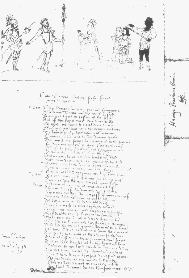 The only contemporary illustration from Shakespeare; Heanry Peacham's depiction of characters from Titus Andronicus